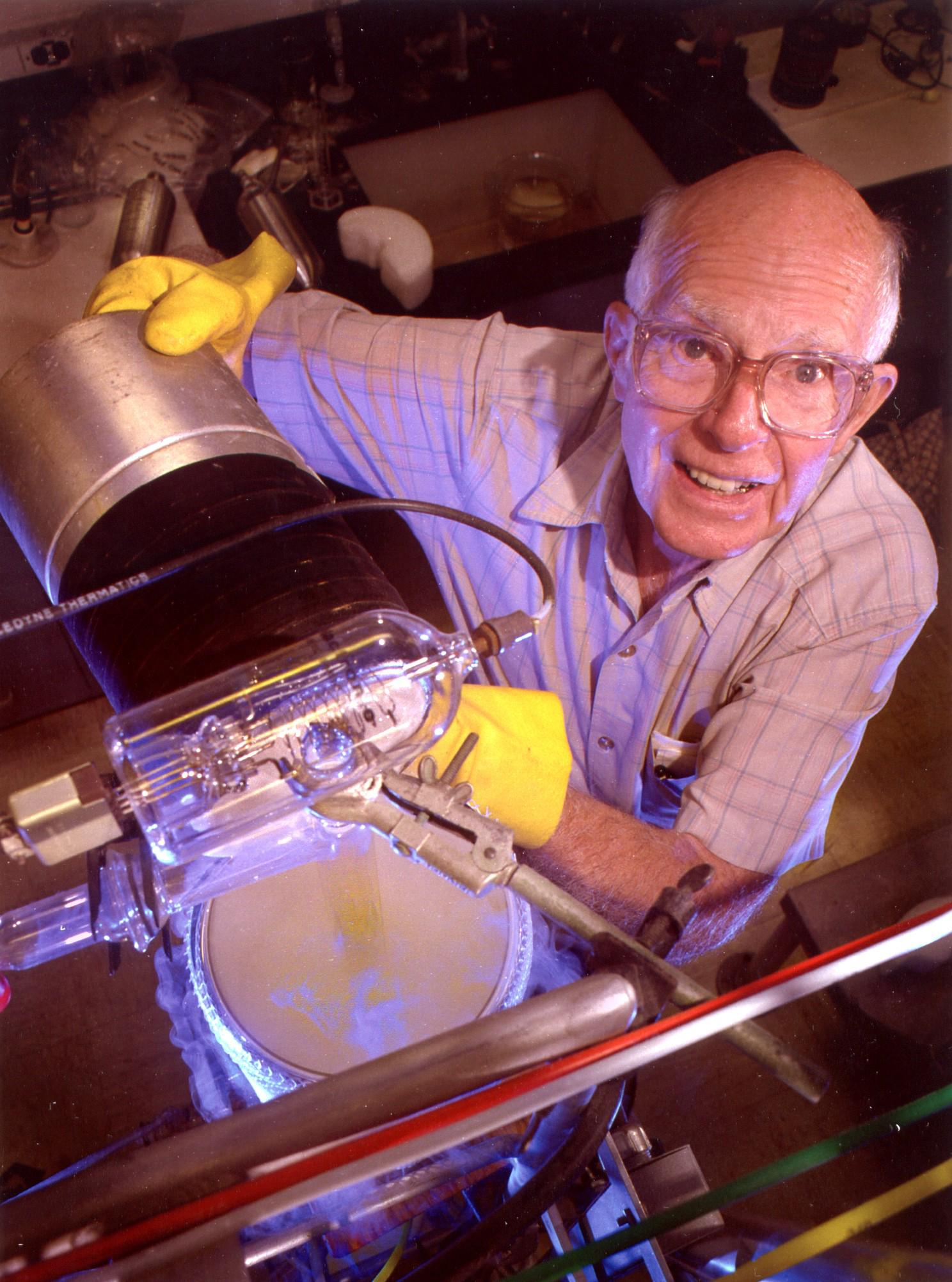 BROOKHAVEN SCIENTIST, 2002 NOBEL LAUREATE IN PHYSICS, DR. RAYMOND DAVIS, JR. RAYMOND DAVIS, RETIRED BROOKHAVEN NATIONAL LABORATORY SCIENTIST, WON THE 2002 NOBEL PRIZE IN PHYSICS FOR HIS WORK IN DETECTING SOLAR NEUTRINOS WHICH CREATED THE FIELD OF NEUTRINO ASTRONOMY. DAVIS WAS THE FIRST SCIENTIST TO DETECT SOLAR NEUTRINOS, THE ELUSIVE, GHOSTLIKE PARTICLES PRODUCED IN THE NUCLEAR REACTIONS OCCURRING IN THE CORE OF THE SUN, PROVIDING THE SUN'S ENERGY. HIS SOLAR NEUTRINO DETECTOR EXPERIMENT WAS CONDUCTED A MILE UNDERGROUND IN THE HOMESTAKE GOLD MINE IN SOUTH DAKOTA. For more information or additional images, please contact 202-586-5251.